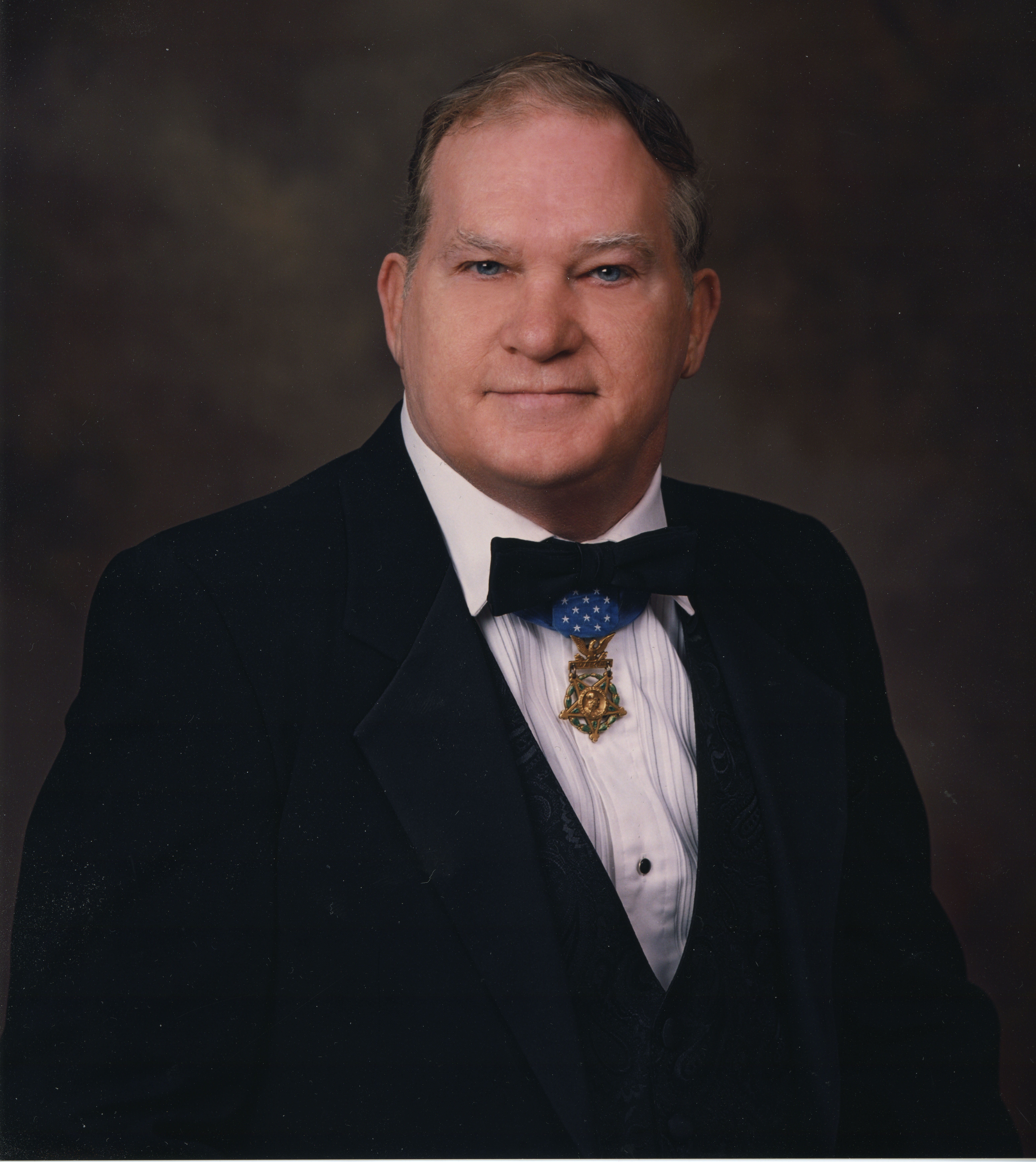 This 2001 photo was taken when Baker was vice president of the Congressional Medal of Honor Society.